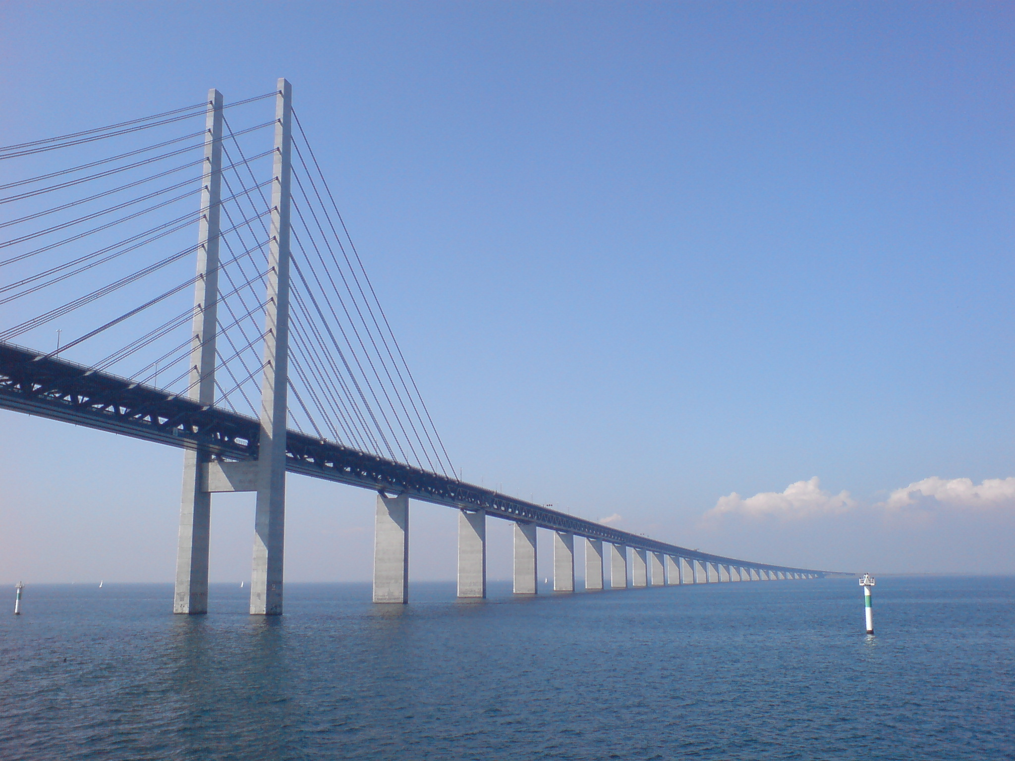 The Öresund Bridge from underneath